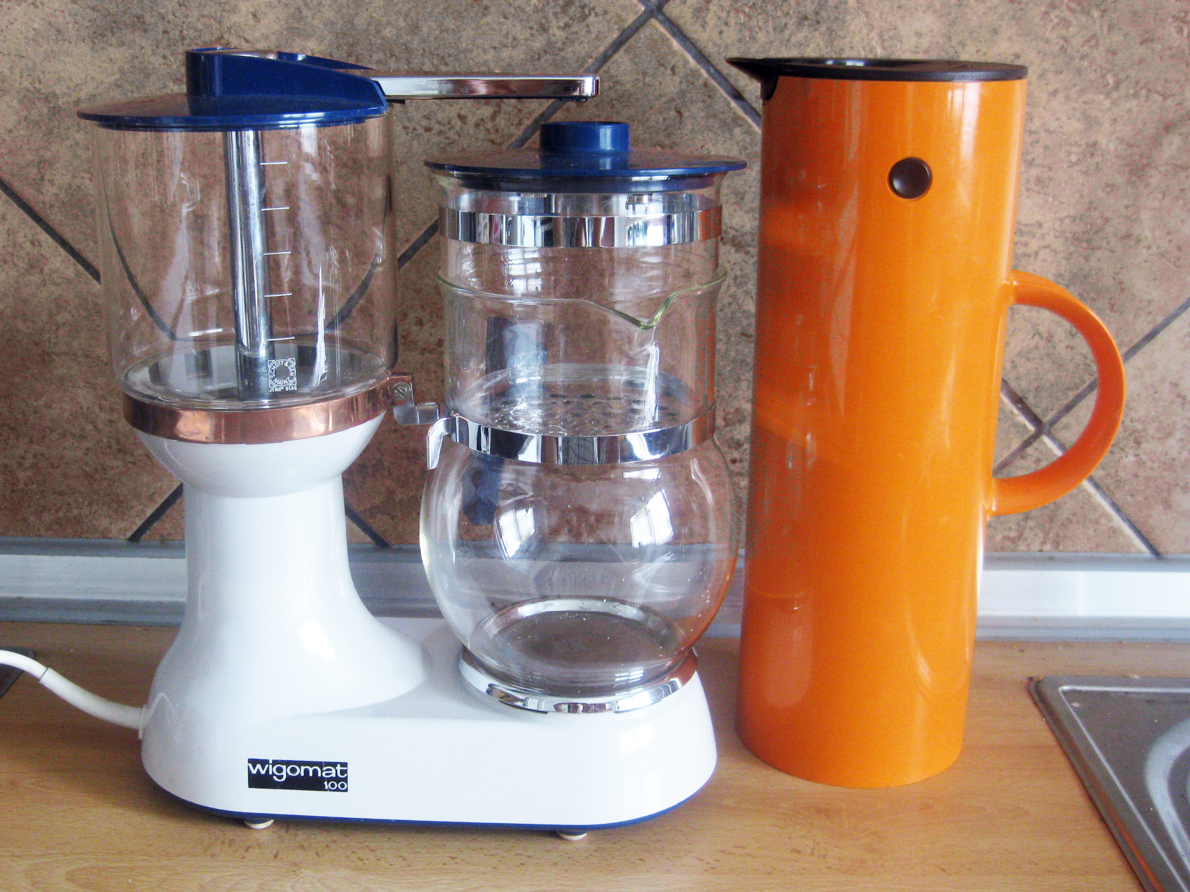 wigomat coffee maker and stelton coffee can